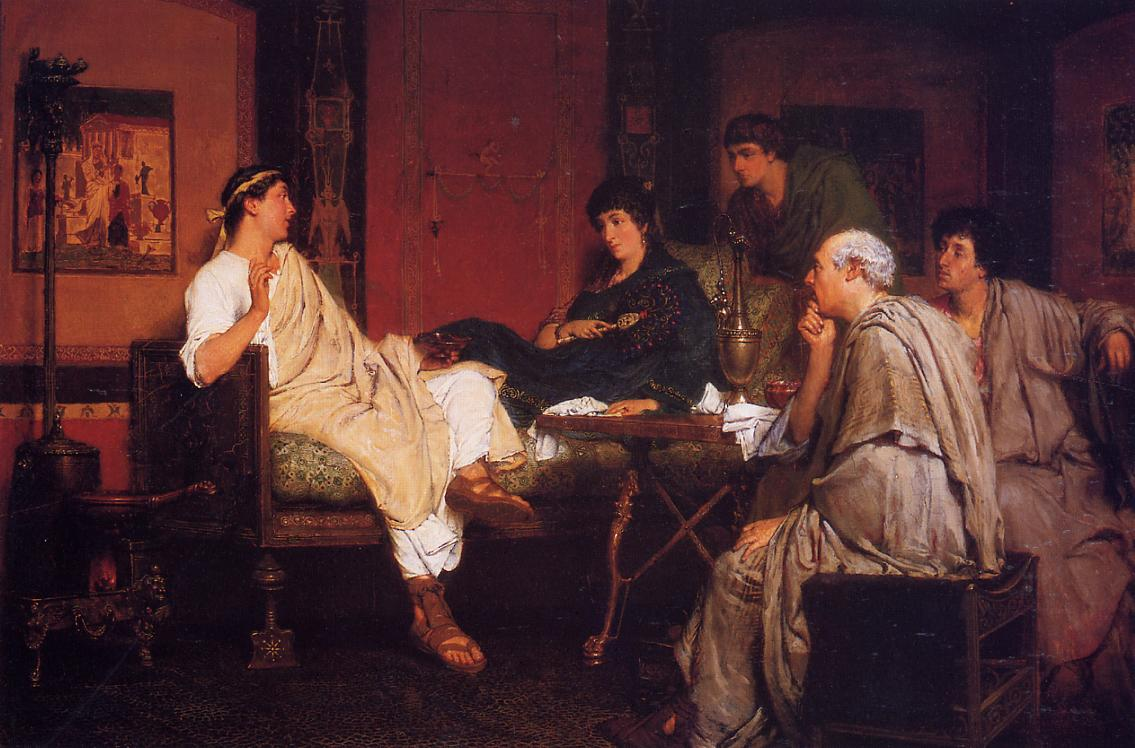 Lawrence Alma-Tadema : Tibullus at Delia's. 1866 Oil on wood. Museum of Fine Arts, Boston, USA.